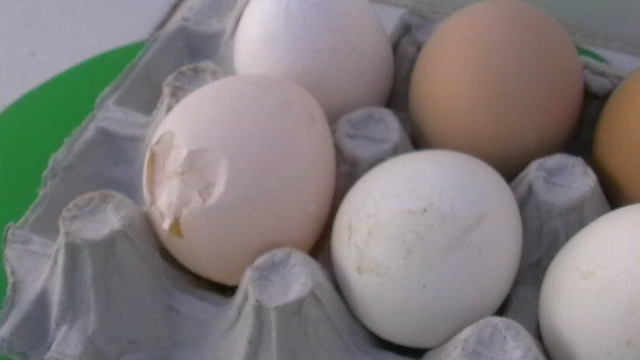 Egg anomalies during probable Infectious Bronchitis outbreak in a parent flock (1) Walon: Fayeyès tinrès schåfes, et blankixhmint des oûs des poyes meres di poyons, dandjreus rascråwêyes del brontchite å virûsse des poyes